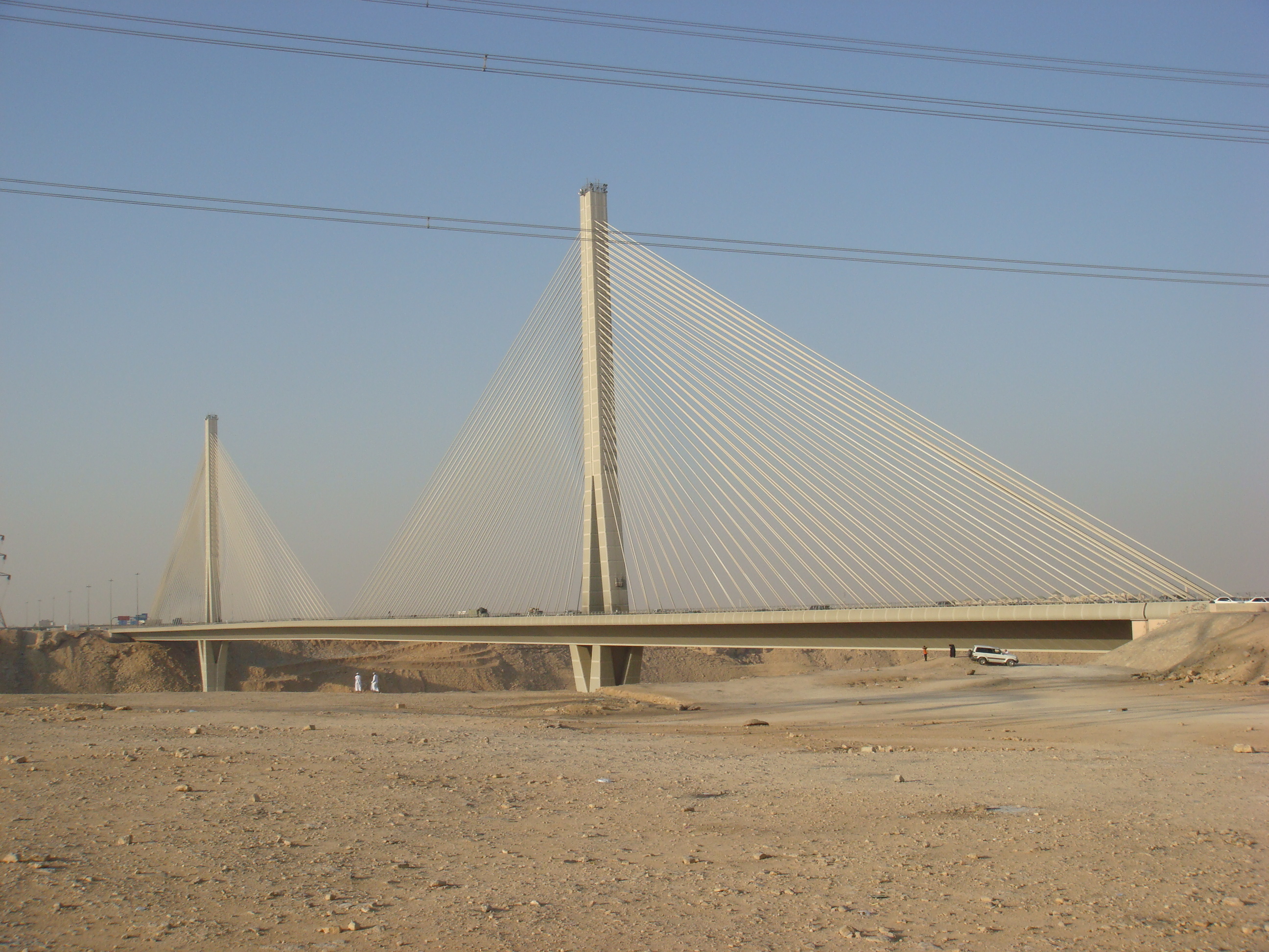 New cable-stayed bridge in Riyadh, Saudi Arabia.